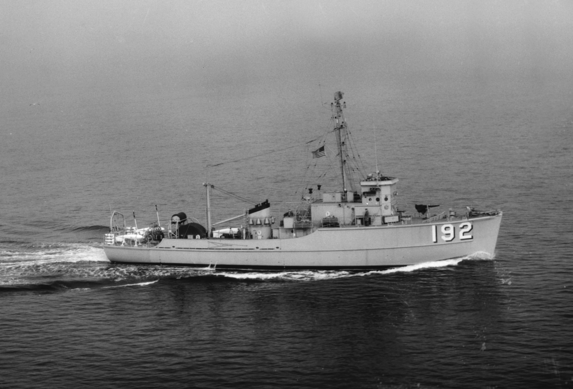 The U.S. Navy motor minesweeper USS Hummingbird (AMS-192) at sea.